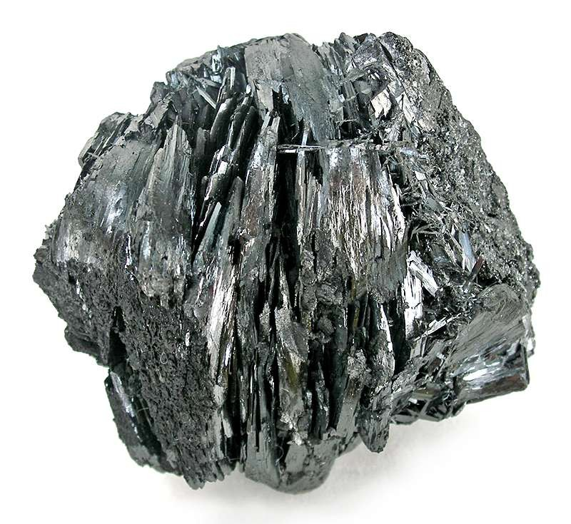 Manganite Locality: Wessels Mine (Wessel's Mine), Hotazel, Kalahari manganese fields, Northern Cape Province, South Africa (Locality at ) A very complex aggregate growth of slender, curving manganite crystals , reaching from top to bottom on this specimen. More pronounced curvature and 3-dimensionality in person! This is an excellent specimen of manganite from a manganese mine that really doesn't produce much pure manganite , of specimen calibre. It is more impressive, and quite hefty, in person! 6.1 x 6.0 x 3.7 cm